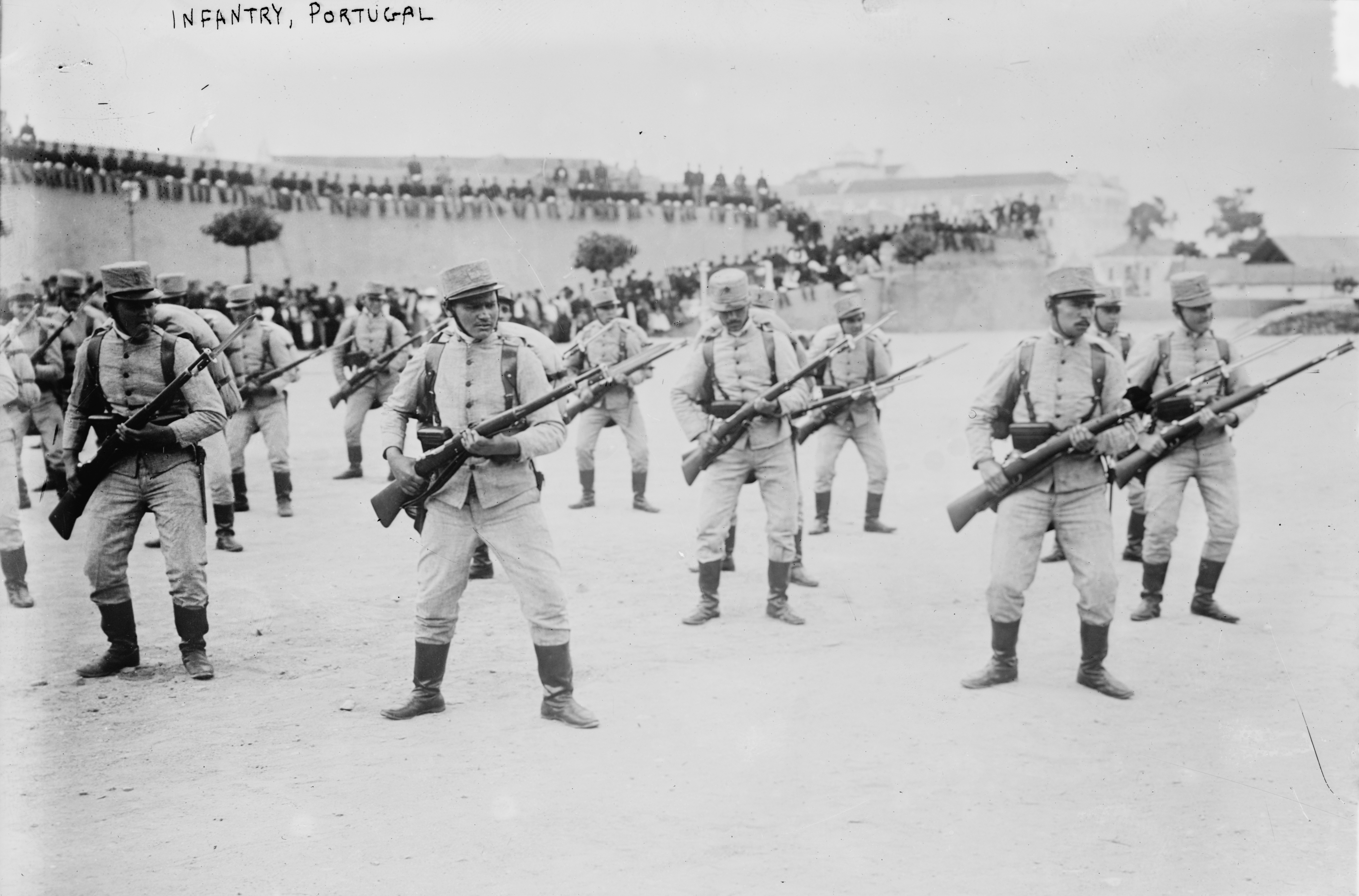 Portuguese Infantry.